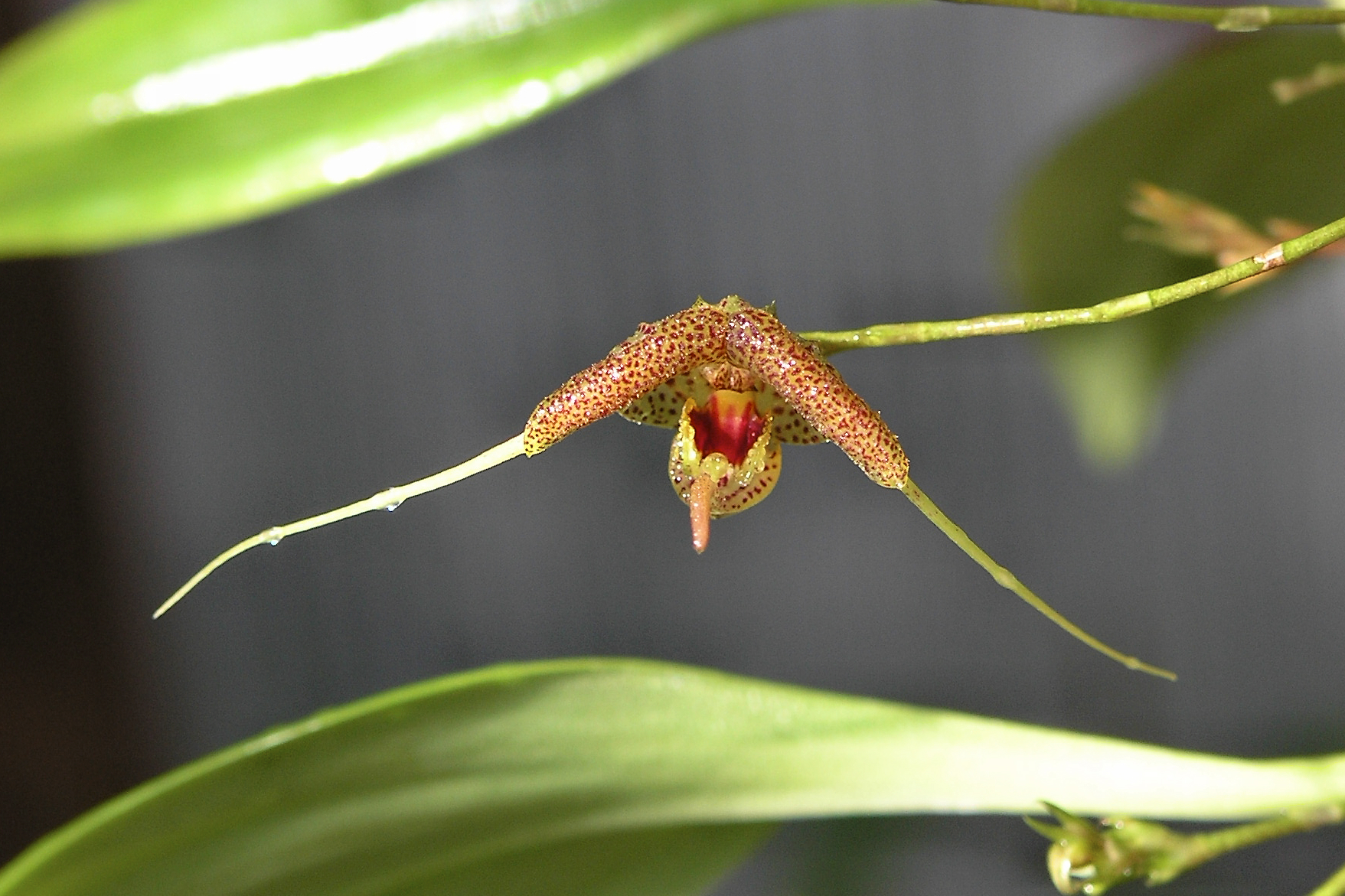 Orchid: Scaphosepalum swertiifolium, cropped detail